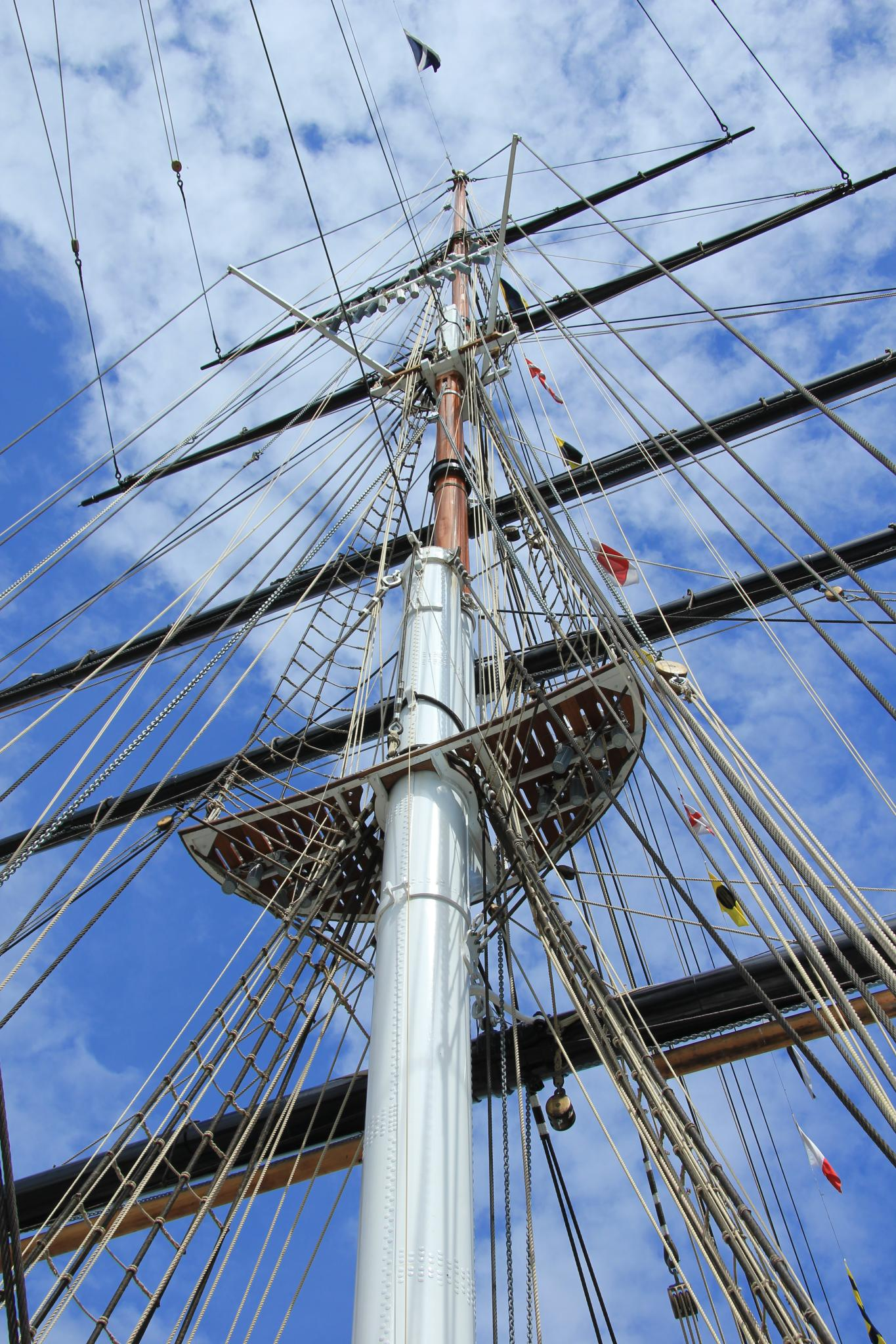 Cutty Sark, King William Walk, Greenwich, London SE10 9HT Badly damaged by fire on 21 May 2007 while undergoing conservation Cutty Sark was relaunched on 25 April 2012 opening a new chapter in the extraordinary life of one of the world’s most famous ships. Built in 1869 for the Jock Willis shipping line, she was one of the last tea clippers to be built, the last surviving and the fastest and greatest of her time, she is a living testimony to the bygone, glorious days of sail and, most importantly, a monument to those that lost their lives in the merchant service. Venture aboard and beneath one of the world’s most famous ships. Walk along the decks in the footsteps of the merchant seamen who sailed her over a century ago. Explore the hold where precious cargo was stored on those epic voyages then marvel as you balance a 963-tonne national treasure on just one hand.